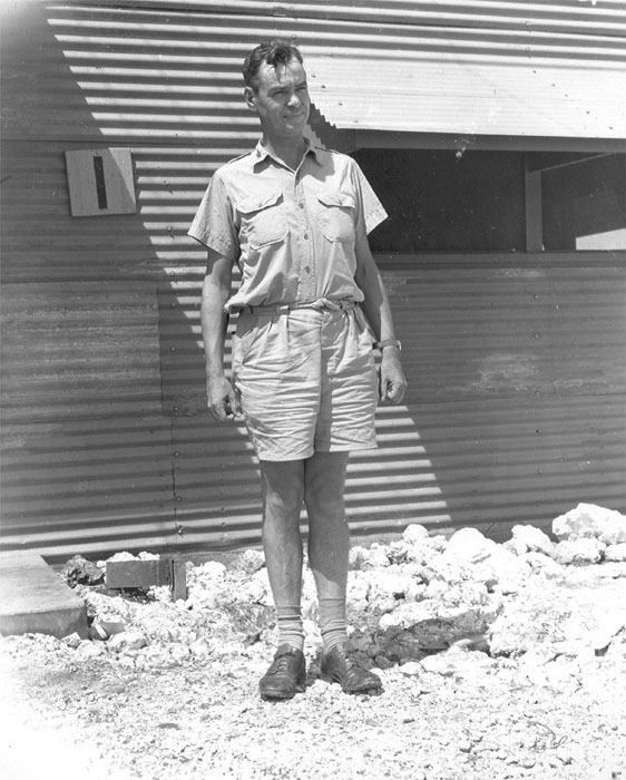 Colonel E. E. Kirkpatrick on Tinian